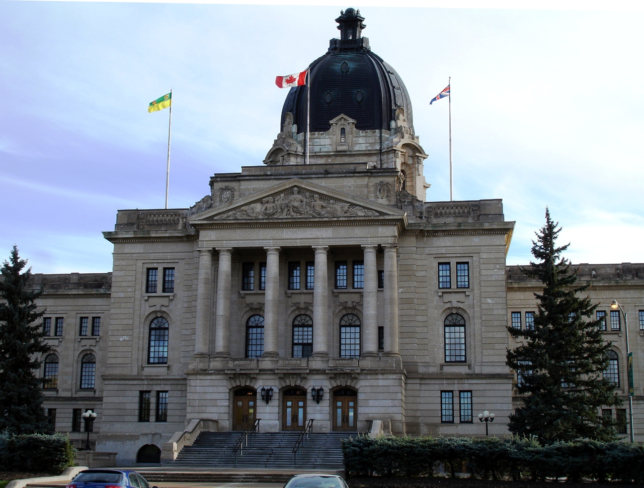 The Saskatchewan Legislative Building, seat of the provincial government, in the city of Regina, Saskatchewan, Canada.